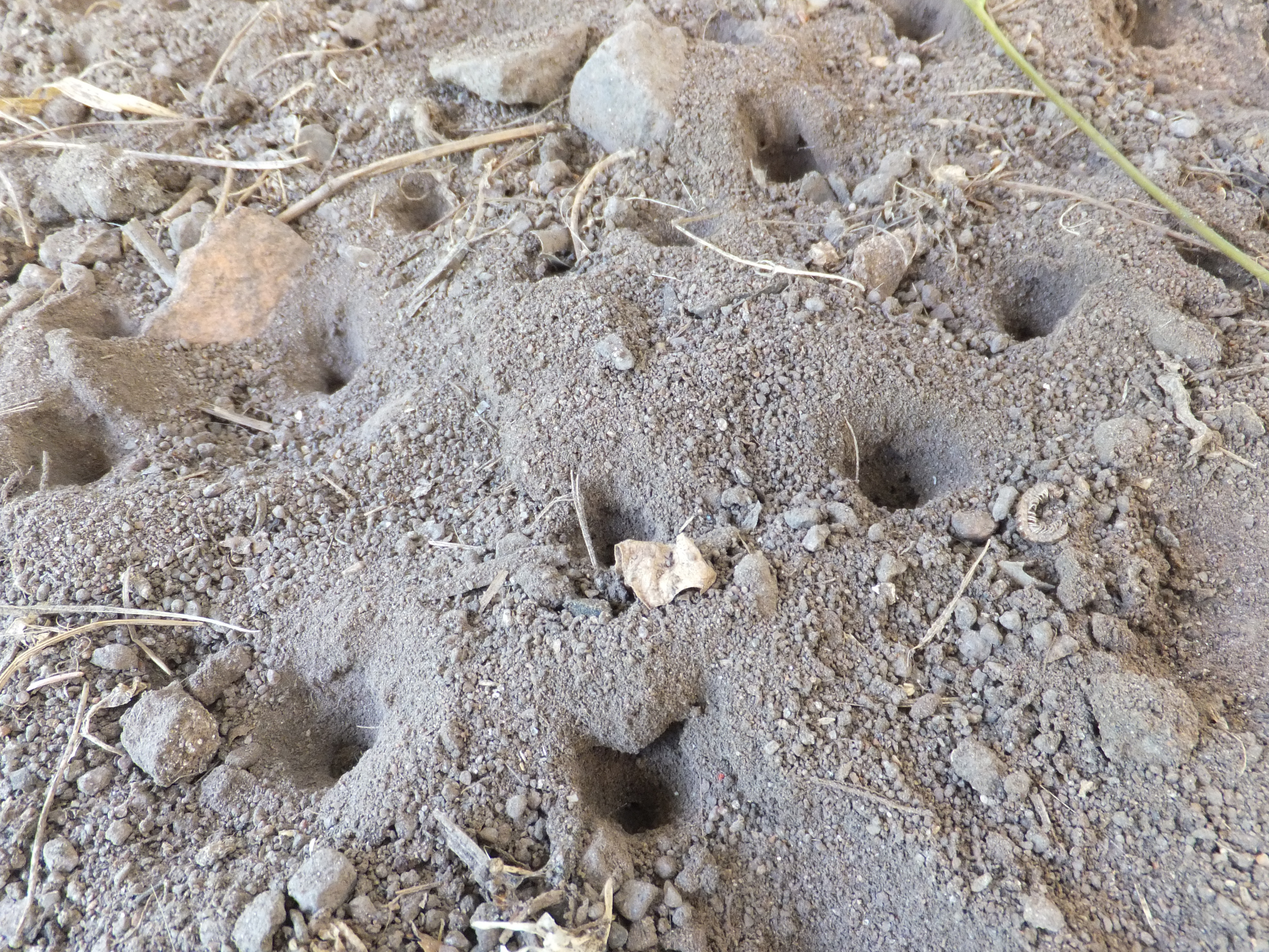 Pit traps dug by wormlion (Vermileo vermileo) larvae, nestled under a solar collector (Piazzo, Segonzano, Italy)